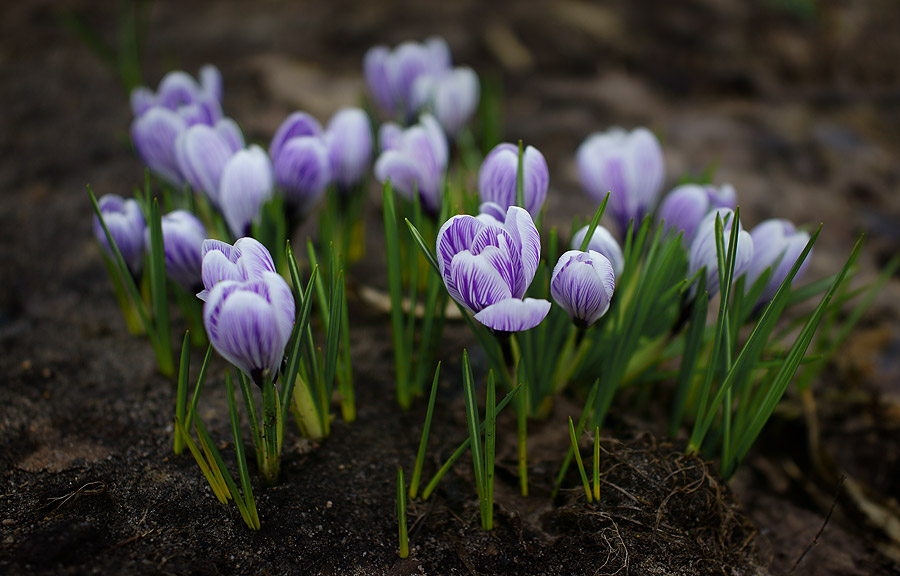 Crocus 'Pickwick'